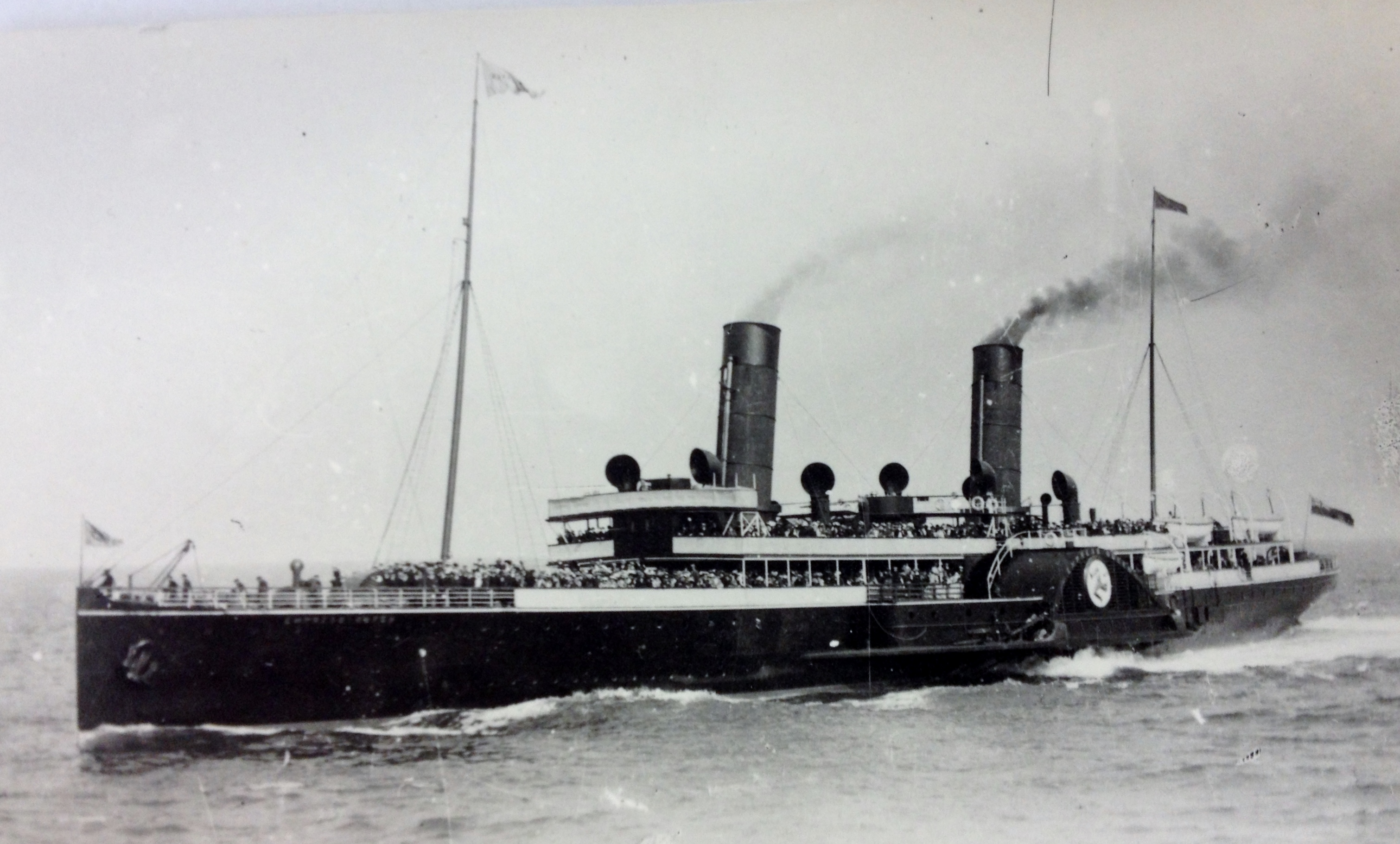 Empress Queen pictured during her Steam Packet service.